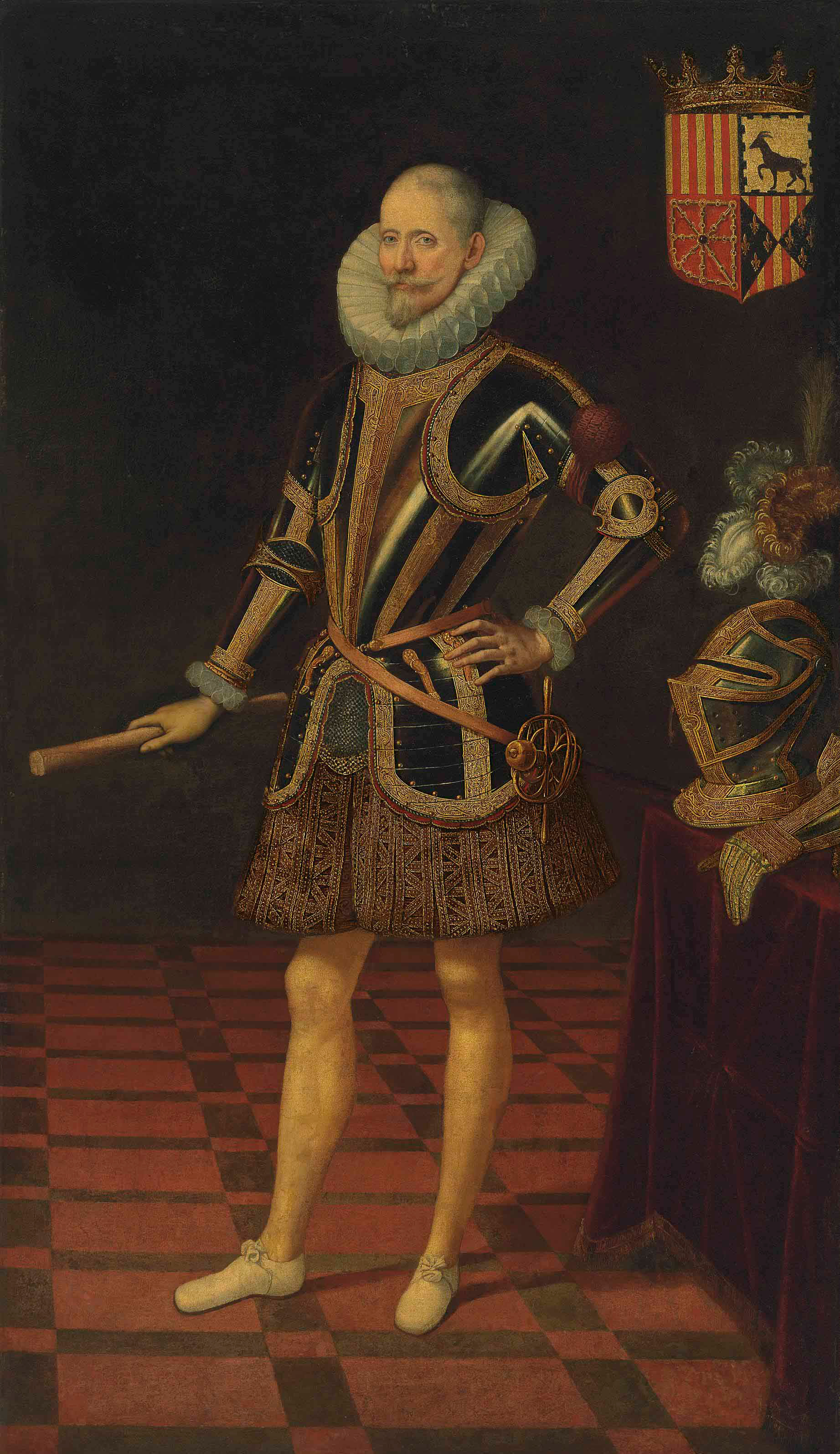 Portrait of a nobleman, Juan Francisco Cristobal Fernández de Híjar (c. 1550-1614), 4th Duke of Híjar, Duke of Aliaga and Lécera, Count of Belchite, full-length, in armour and embroidered trunk hose, holding a baton of command in his right hand, his plumed helmet and gauntlet resting on a draped table